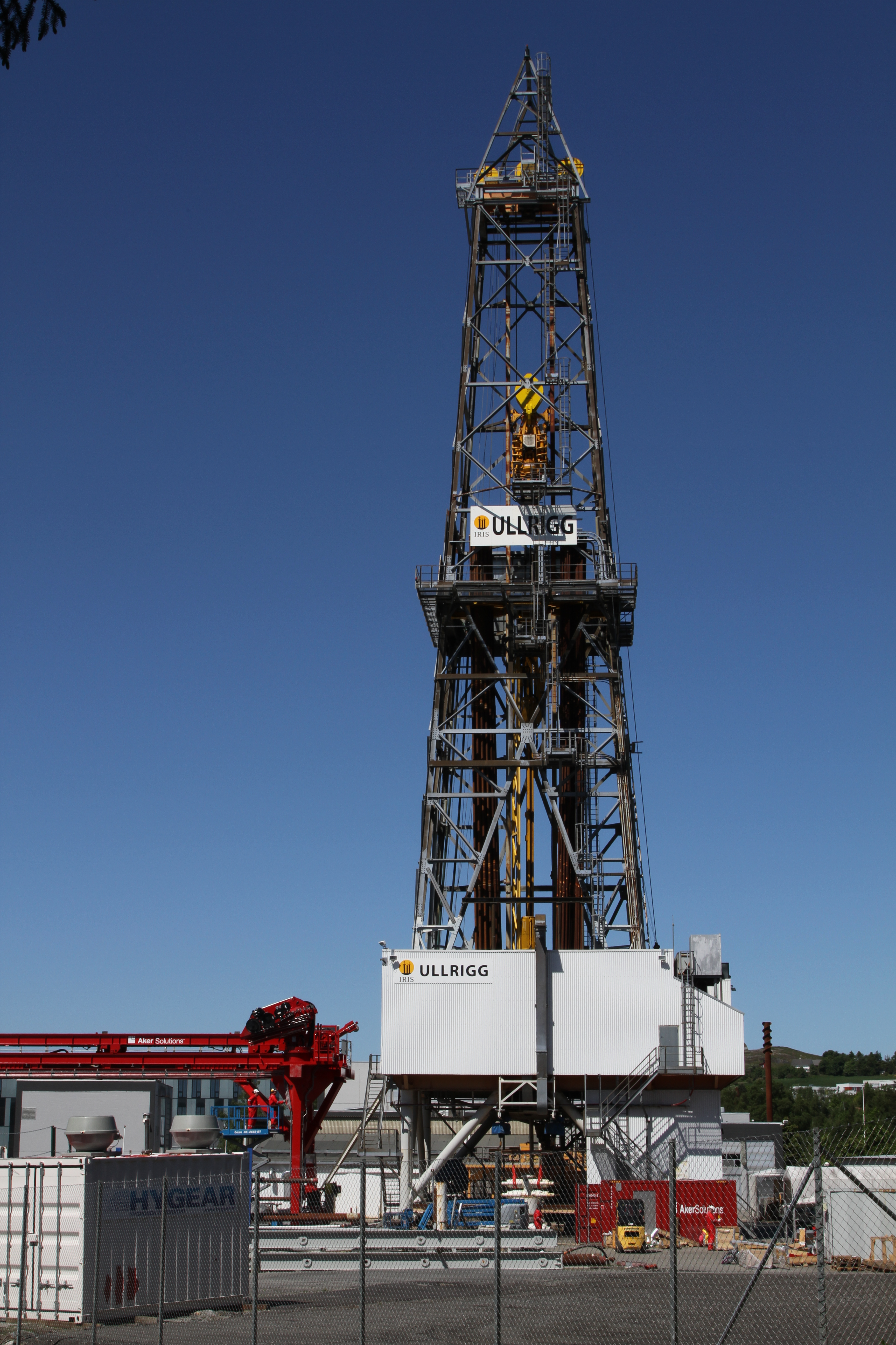 Ullrigg at International Research Institute Stavanger, Norway